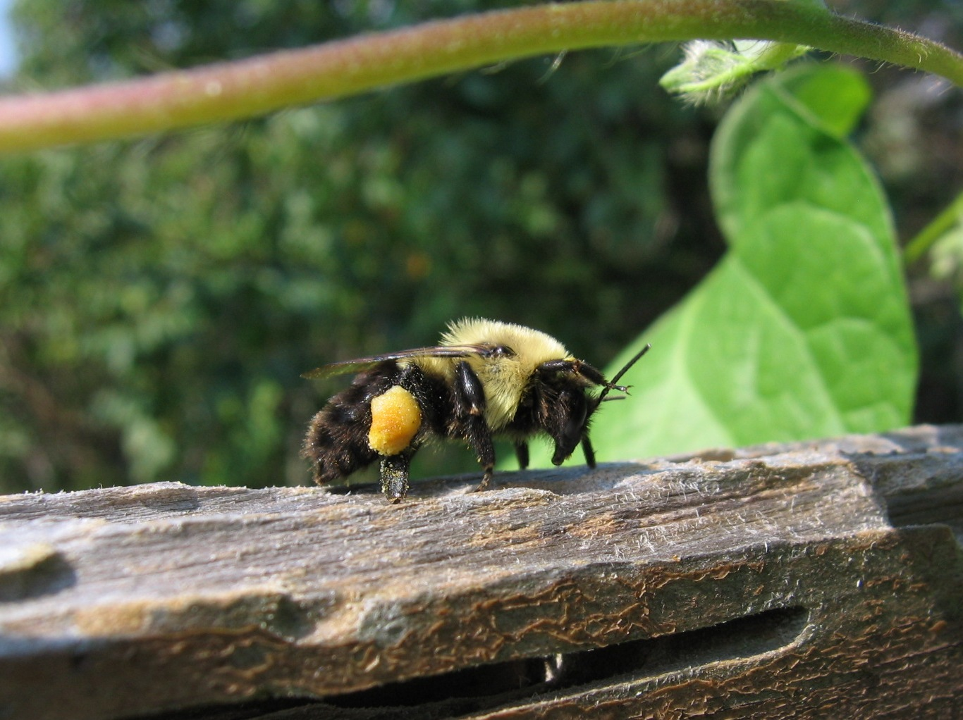 Bumblebee with a load of pollen. Looks like it might be cleaning its antenna with its leg. For scale, the bee is on the edge of a board that is 3/4" (1.9cm) thick, and the vine is a morning glory.